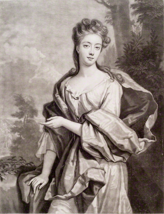 Portrait of Diana Beauclerk (née de Vere), Duchess of St Albans